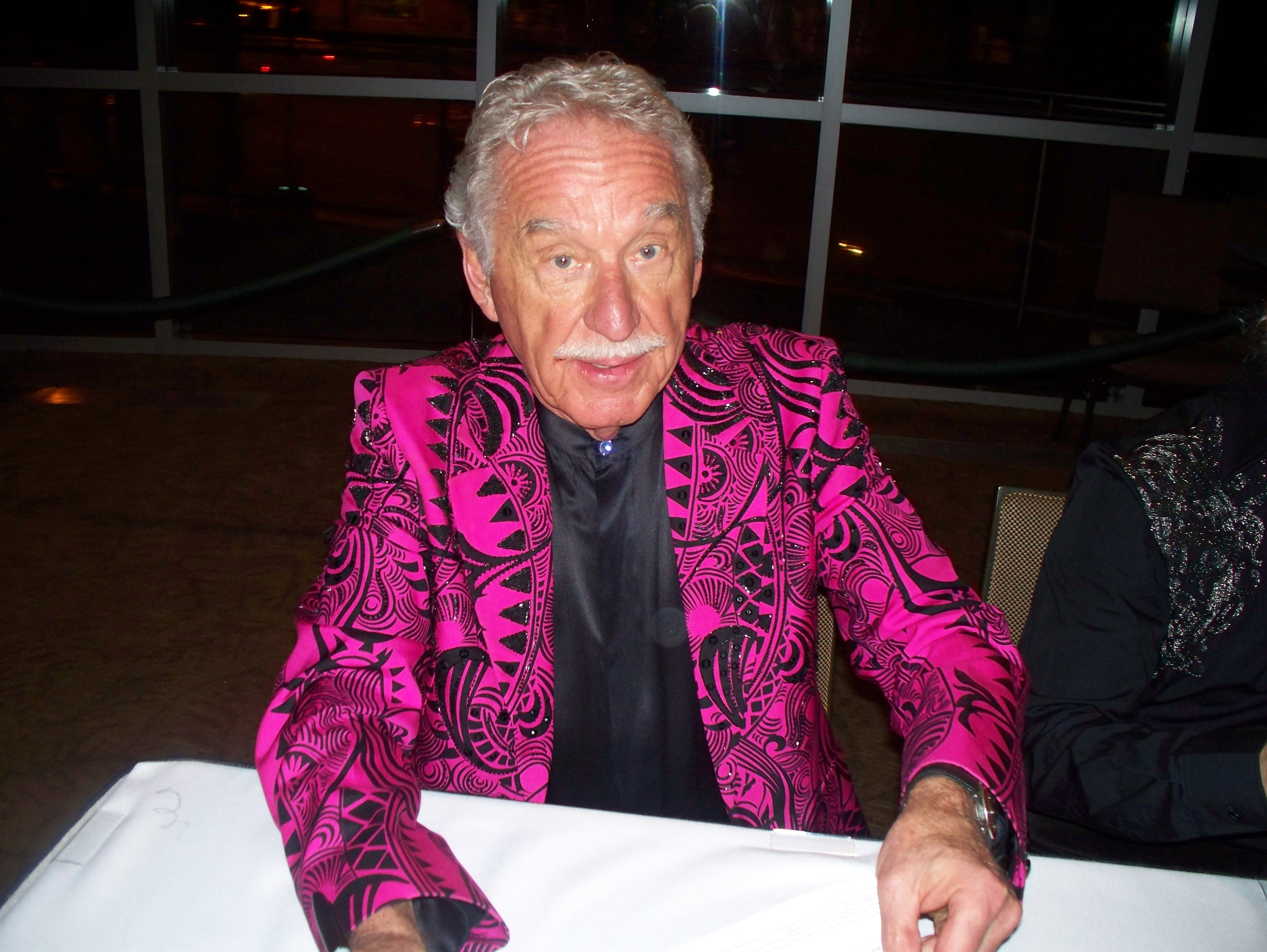 Doc Severinsen at the Benaroya Hall in Seattle 2009